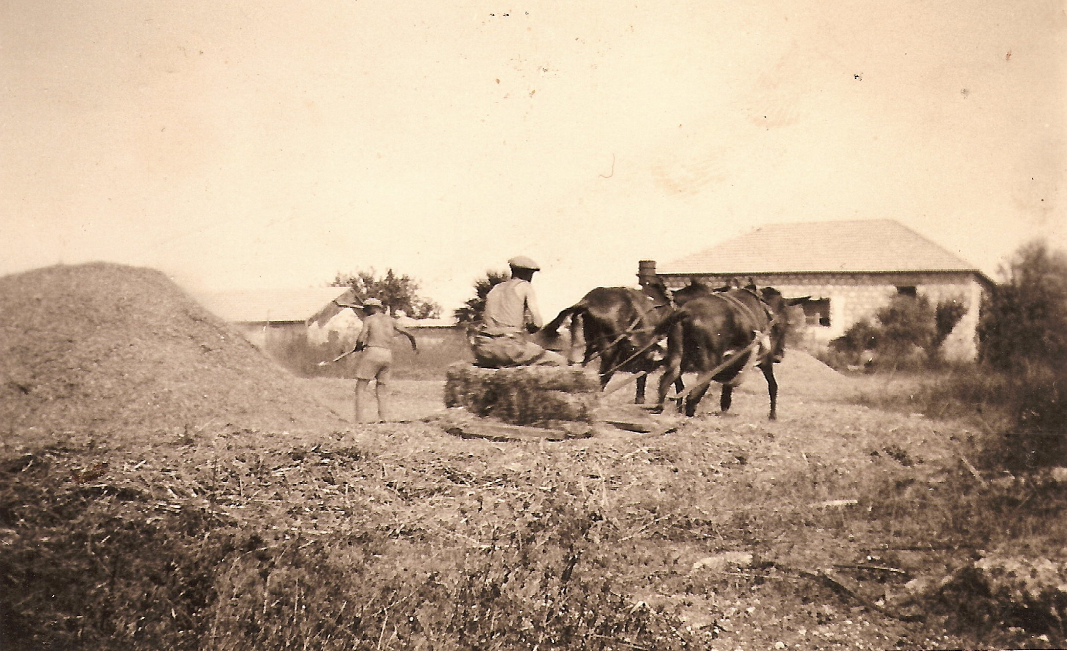 Agriculture in Israel